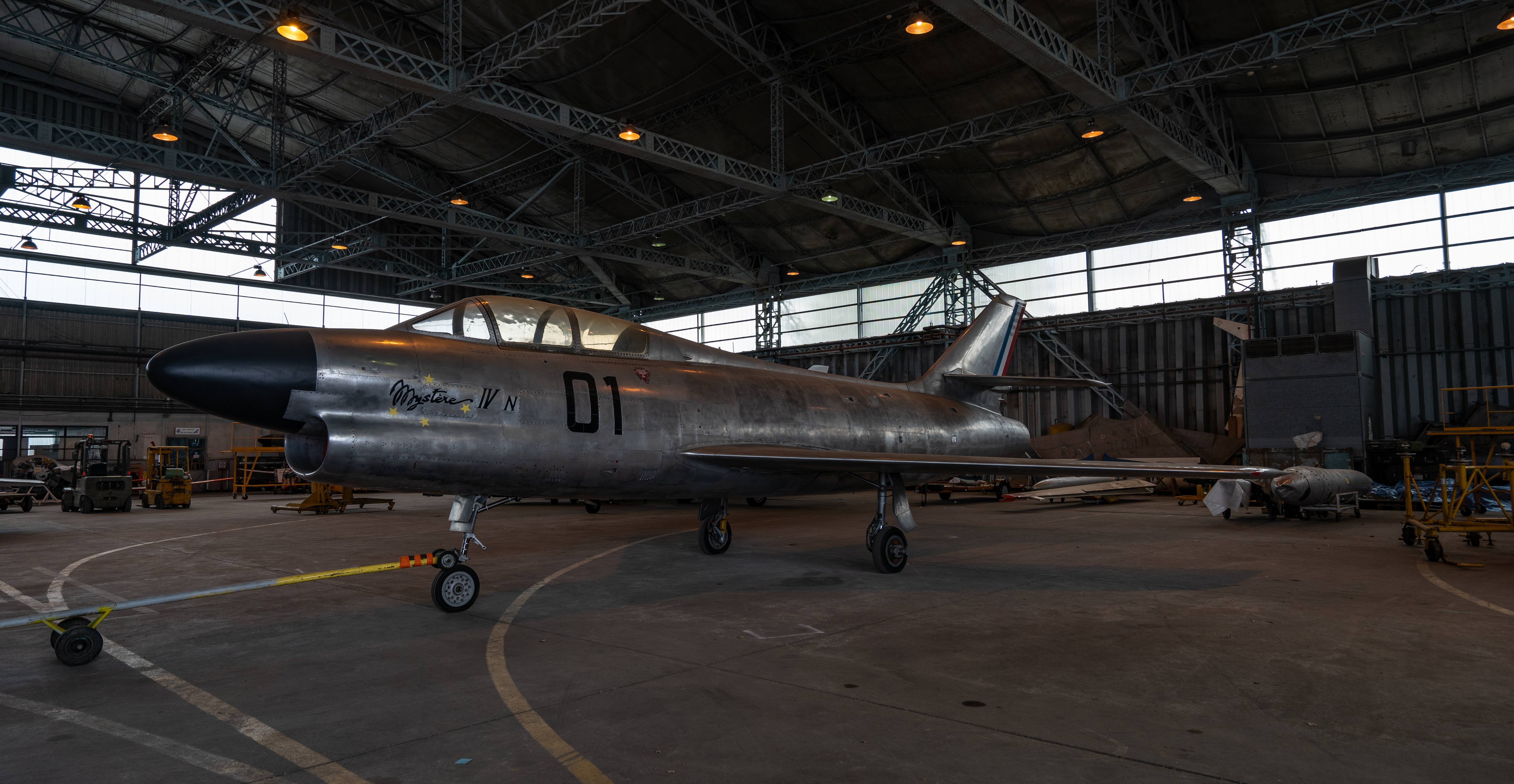 "Une commande de 2 prototypes du Mystère IV N fut alors passée officiellement le 1er mai 1954. Celle du n°2 sera résiliée 4 mois plus tard. Il est équipé du réacteur Rolls-Royce Avon RA 7 doté de postcombustion. Le fuselage est modifié par rapport au Mystère IV B (l'entrée d'air est placée en dessous du fuselage) car il est prévu de loger le radar dans le nez à la manière du F 86D américain. Bénéficiant ainsi de nombreux composants de cellules et d'équipements des Mystère IVA et Mystère IV B en cours de développement, le Mystère IV N 01 a effectué un 1er vol le 19 juillet 1954 à Melun-Villaroche, piloté par Gérard Muselli. La vitesse de Mach 1,1 fut passée au cours du 13éme vol. La célébrité de cet appareil, hormis le fait qu'il est le seul et unique exemplaire de son type, lui vient du record de vitesse pure féminin, obtenu par Jacqueline Auriol le 31 mai 1955 à l'occasion du 87éme vol, avec 1151 km/h, sur une base de 12.300 km, détrônant ainsi celui de l'américaine Jacqueline Cochrane. Le 18 juin 1955, au 98éme vol, Gérard Muselli est accompagné par un passager de marque, le ministre des Travaux Publics, le général Edouard Corniglion-Molinier; ils effectuent le trajet du Bourget à Nice, soit 789 km, à 982 km/h de moyenne. C'est finalement le Vautour de la SNCASO qui est choisi par l'Armée de l'Air qui bénéficie par ailleurs, dans le cadre de l'OTAN, de 60 avions F 86K à des conditions très avantageuses. Grâce à son excellente stabilité en vol et à son installation en biplace, il devient un parfait avion de servitudes. Différents types de radars furent montés et évalués, notamment l'Aladin et l'Aïda qui équipera plus tard l'Etendard. "